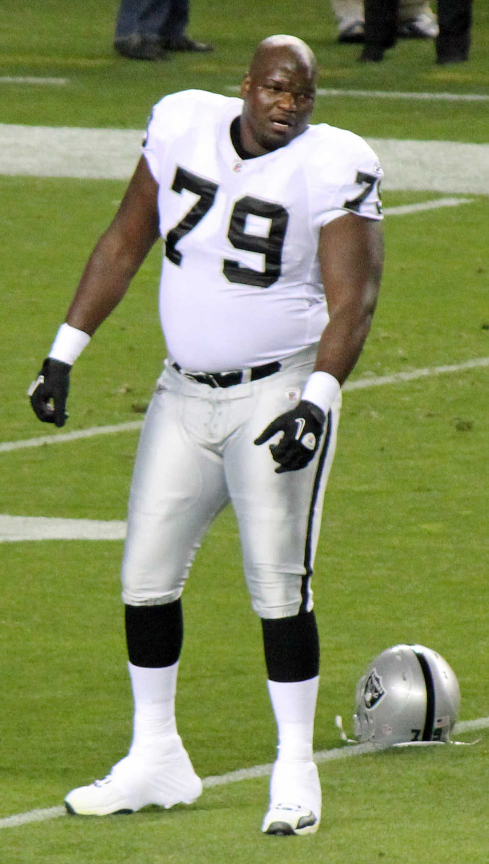 John Henderson (defensive tackle), a player on the National Football League.